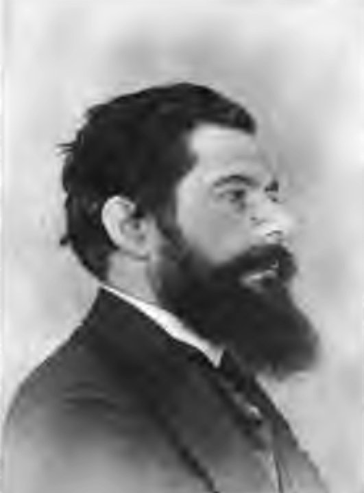 Photograph of Desire Despradelle (1862-1912) professor of architecture at MIT and important Beaux-Art style architect.